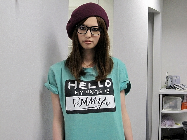 Emi Suzuki, a Japanese female model, with the hat, glasses, shirt which were made by her 6 year old fan.